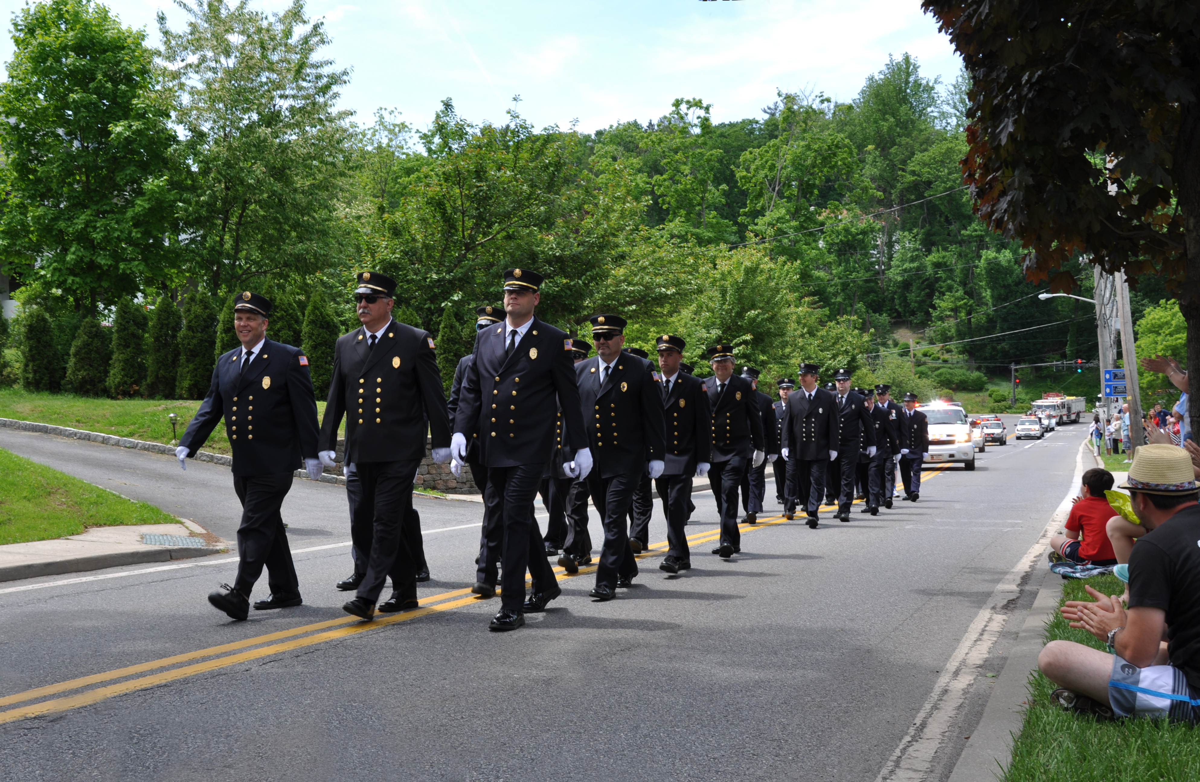 Briarcliff Manor Fire Department members. Taken Memorial Day, Monday May 26, 2014, at Briarcliff Manor's annual Memorial Day parade.